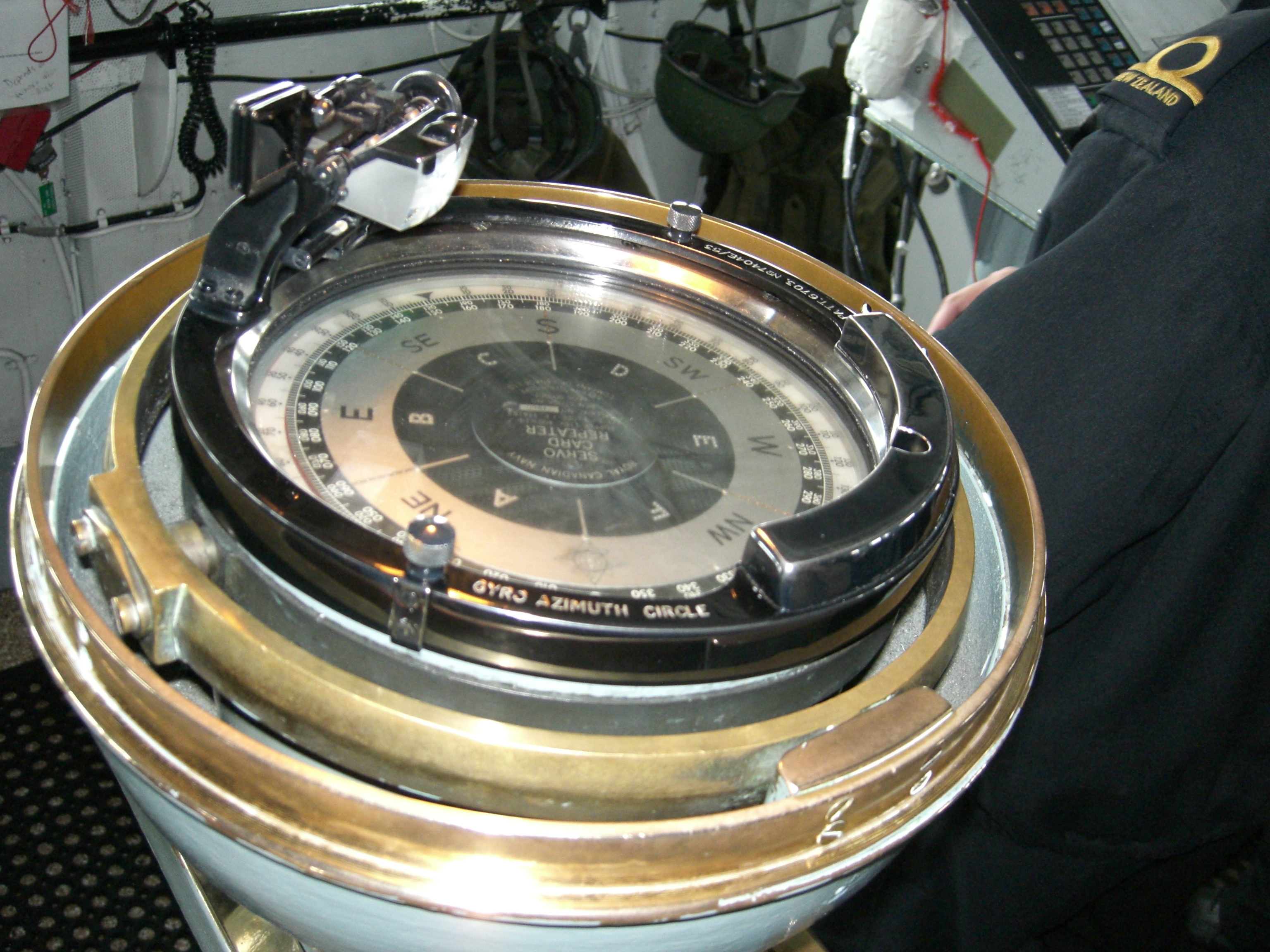 Ship's Gyro Compass on the bridge of HMCS Algonquin (DDH 283)